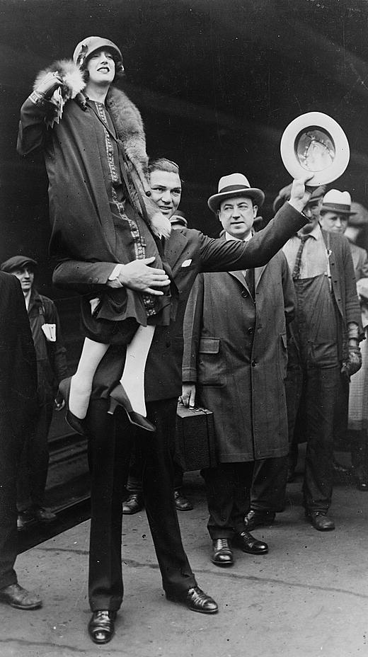 Boxer Jack Dempsey in Chicago, hoisting his wife, Estelle Taylor, on his right shoulder.